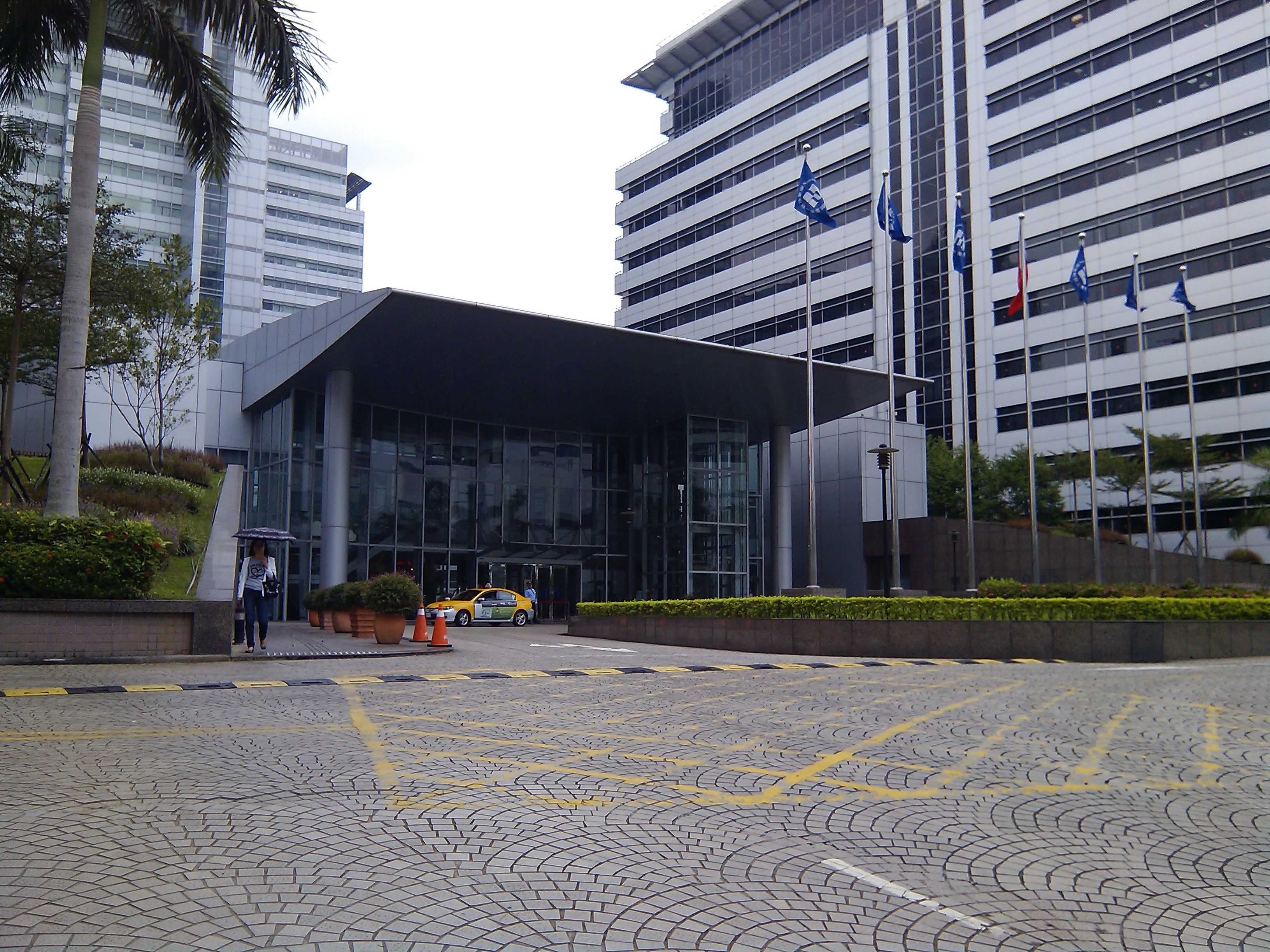 Nankang Software Park